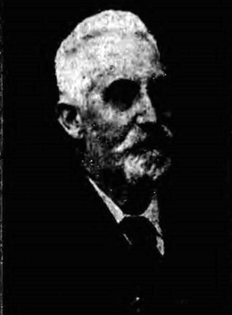 William Henry Godwin of Bartestree, 1911